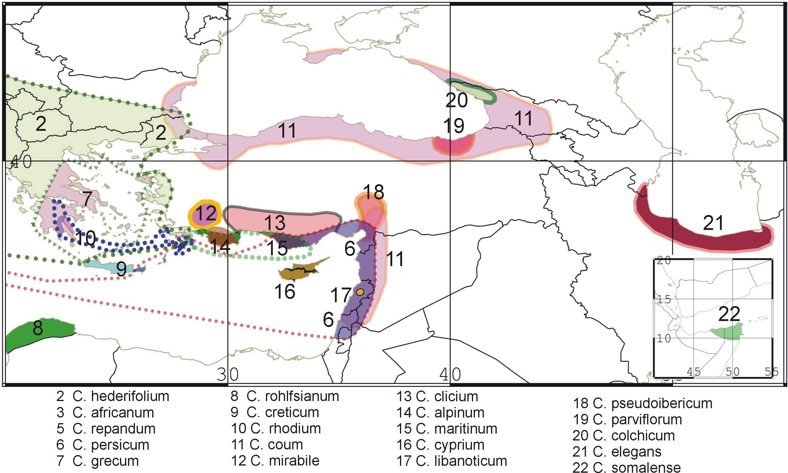 Distribution map of 20 species of the genus cylamen in the eastern part of its natural distribution. (Presumed spread according to wikipedia sources and informations from " ")